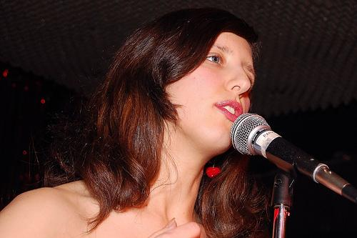 Controversial singer, songwriter, and comedian Jessica Delfino